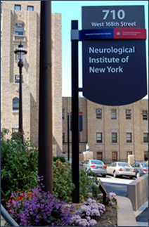 Entrance of the Neurological Institute of New York